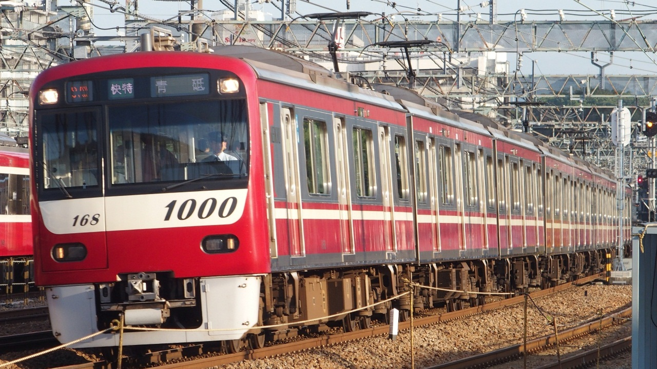 Keikyu New 1000 series 13th-batch 8-car EMU set 1161 between Kanawaza Hakkei and Kanazawa Bunko stations on the Keikyu Main Line